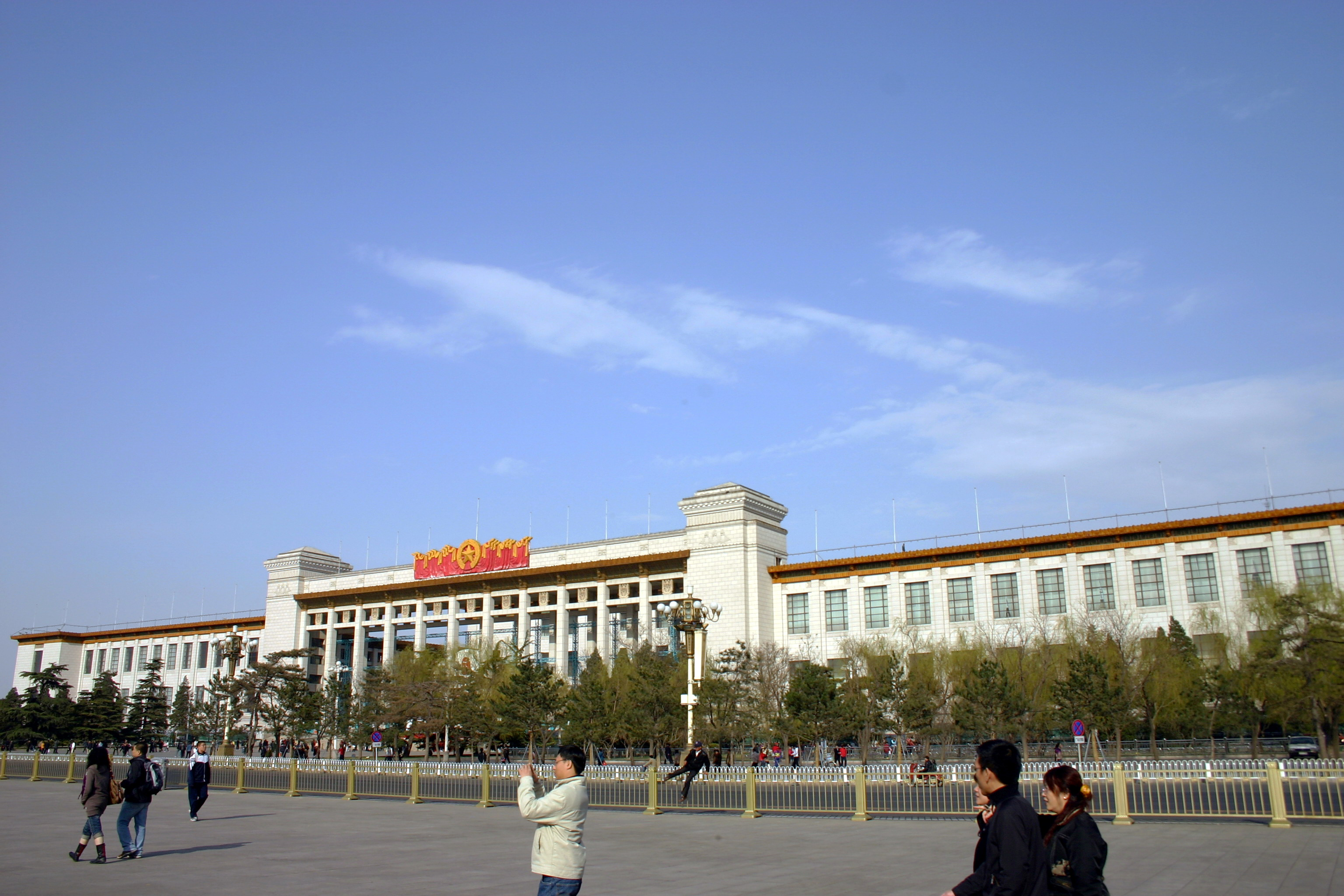 The National Museum of China in Beijing